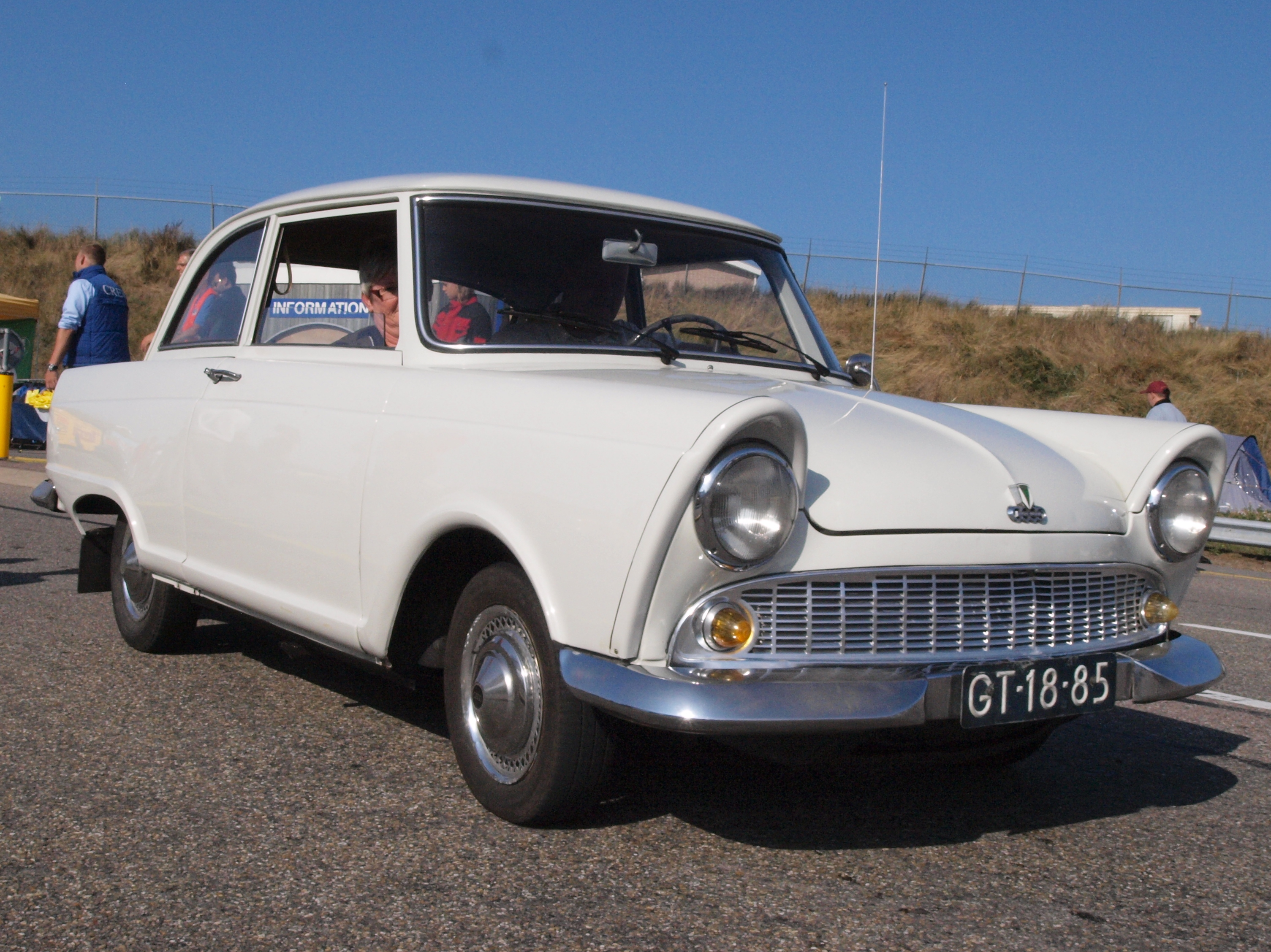 Photographed at the Nationaal Oldtimer Festival Zandvoort 2009, The Netherlands. OLYMPUS DIGITAL CAMERA